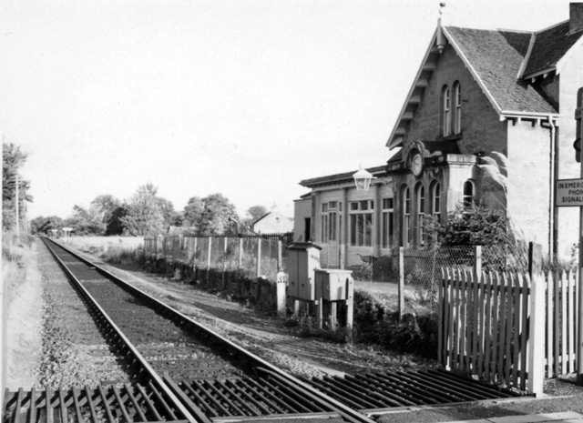 Brodie Station (converted). View eastward, towards Forres; ex-Highland Rly. Inverness - Forres etc. main line. The station had been closed on 3/5/65 and was clearly now converted to a dwelling. The line remains active